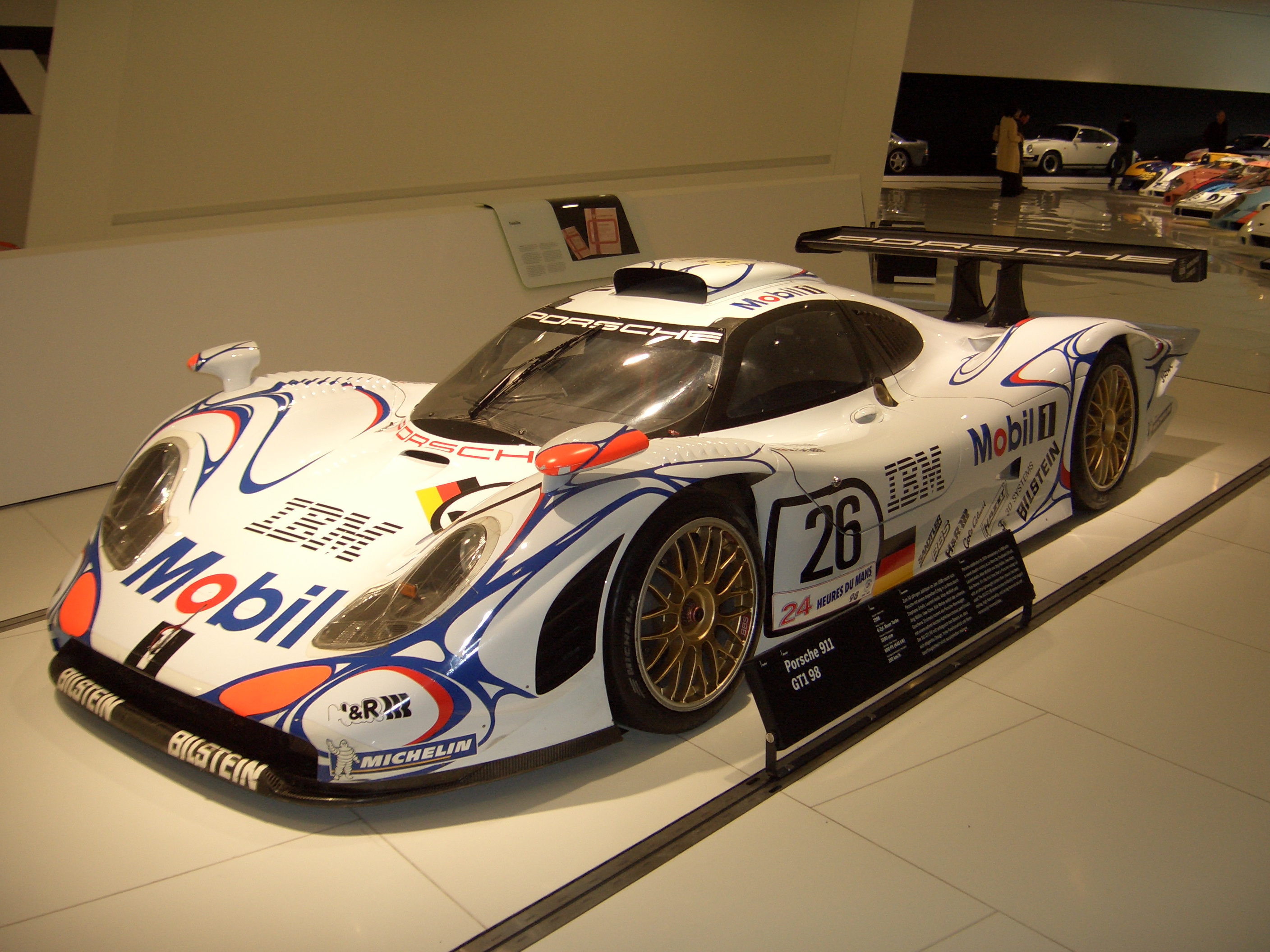 see filename for despcription - seen at Porsche Museum Native namePorsche-MuseumLocationStuttgartCoordinates48° 50′ 07″ N, 9° 09′ 06″ E Established1976 (old museum) 2009 (new museum)Web page control : Q328623 VIAF: 138511768 GND: 2087859-X SUDOC: 155641123 NKC: ko2015876799 institution QS:P195,Q328623